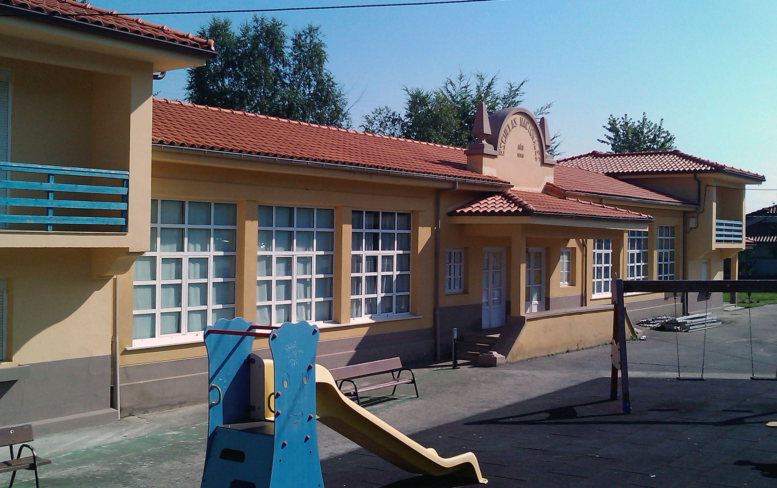 School in San Salvador (Medio Cudeyo, Cantabria, Spain)